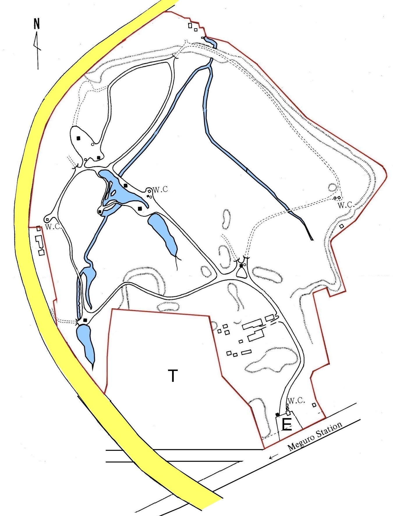 Layout of The Institute for Nature Study, Tokyo